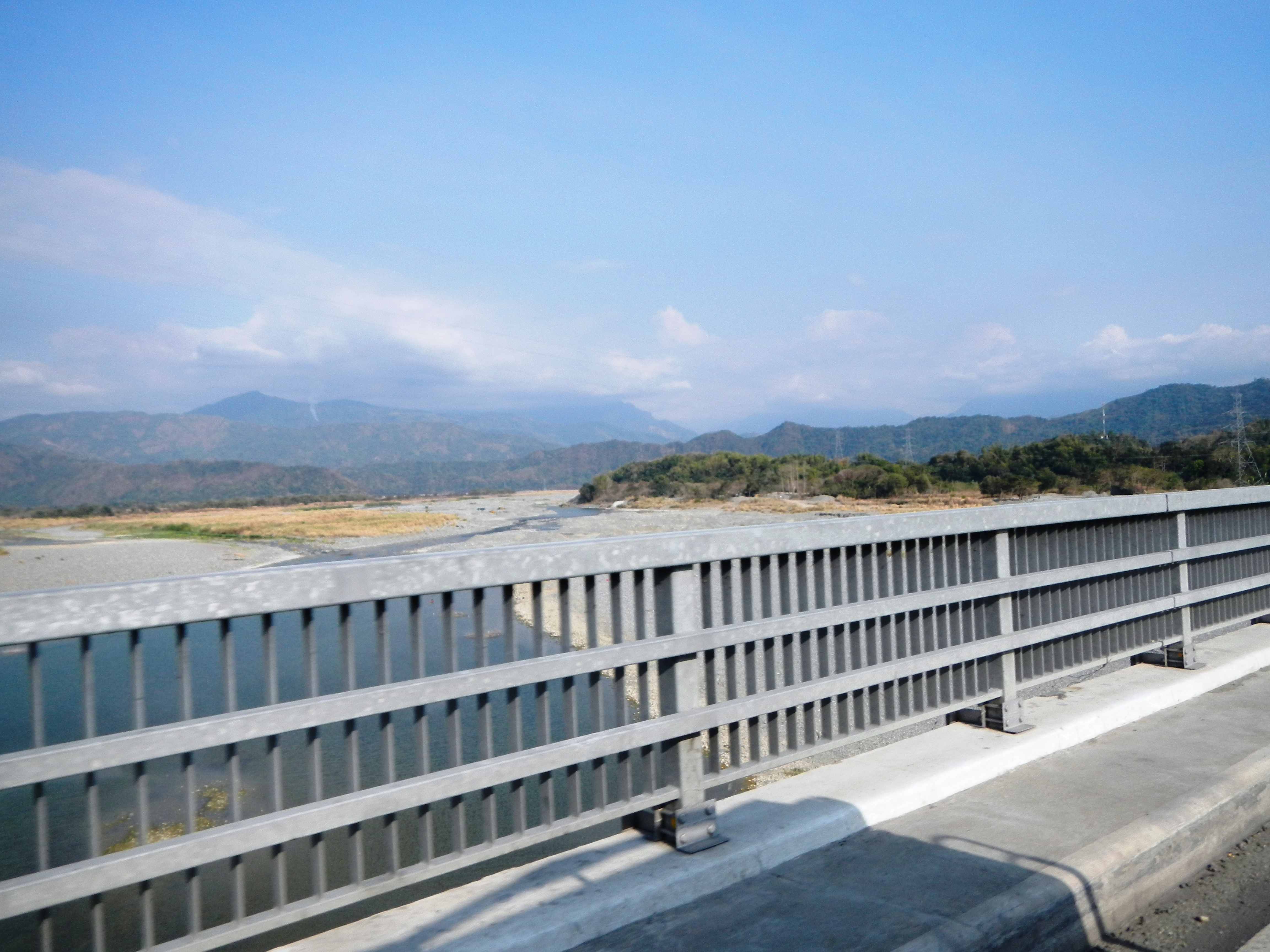 August 19, 1991 La Union Welcome Arch, marker and Sign and Barangay Ipet Welcome Arch, of Sudipen, La Union [1], Highway Boundary blue sign of Ilocos Sur and La Union Engineering Districts, KM 312+551, separating it from neighbor Tagudin, Ilocos Sur amid Inang's Roasted Chicken in Villa d'El-Lita Hotel, Resort and Restaurant to the historic Amburayan Bridge, Sudipen, La Union Bridge, the longest bridge in Region 1, connecting the provinces of La Union and Ilocos gateway to Ilocos Sur, a 535-meter truss bridge crossing the historic Amburayan River, the biggest river in Ilocos.